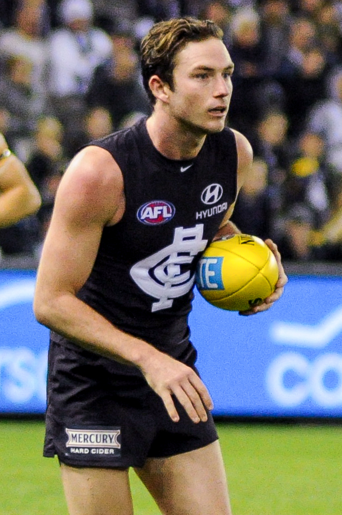 Jed Lamb during the AFL round twelve match between Carlton and Greater Western Sydney on 11 June 2017 at Etihad Stadium in Melbourne, Victoria.